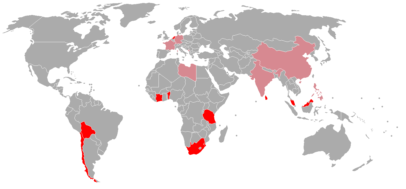 As listed on List of countries with multiple capitals red = current light red = formerly had multiple capitals